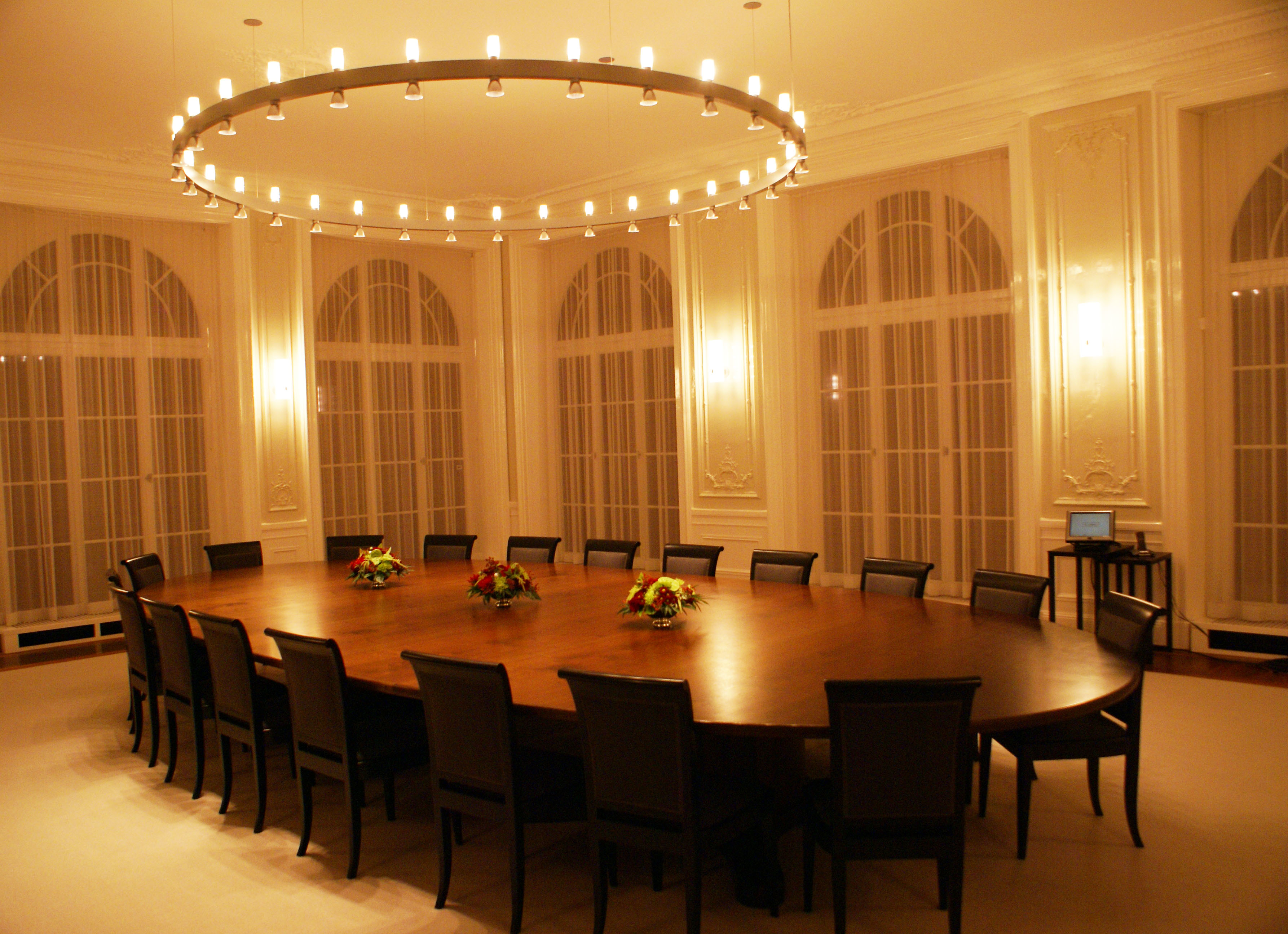 Large salon in the state reception rooms of the Bernerhof, the seat of the Swiss Federal Department of Finance, Berne, Switzerland.